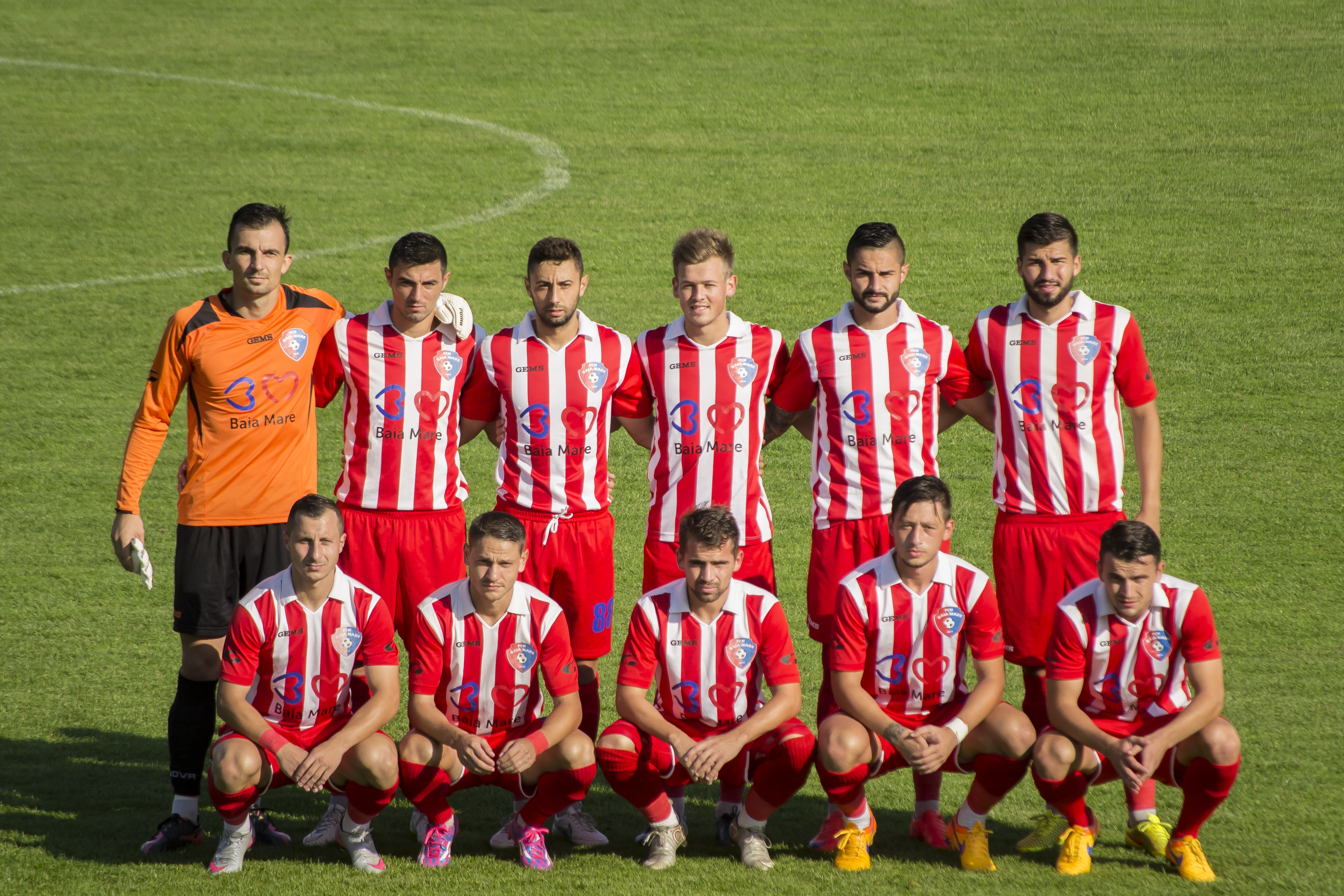 FCM Baia Mare Team